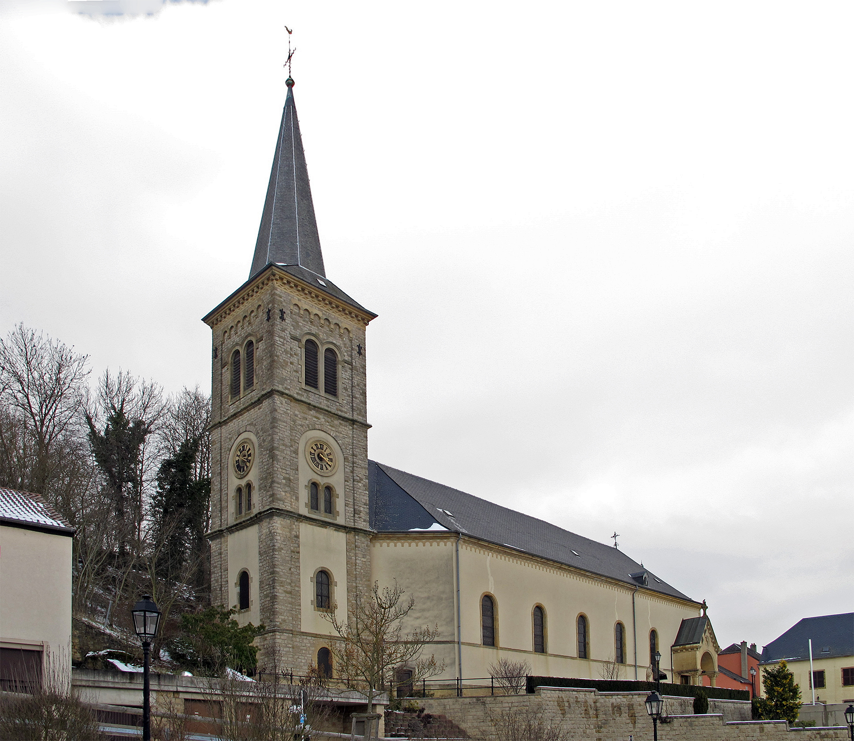 Church in Itzig, Luxembourg